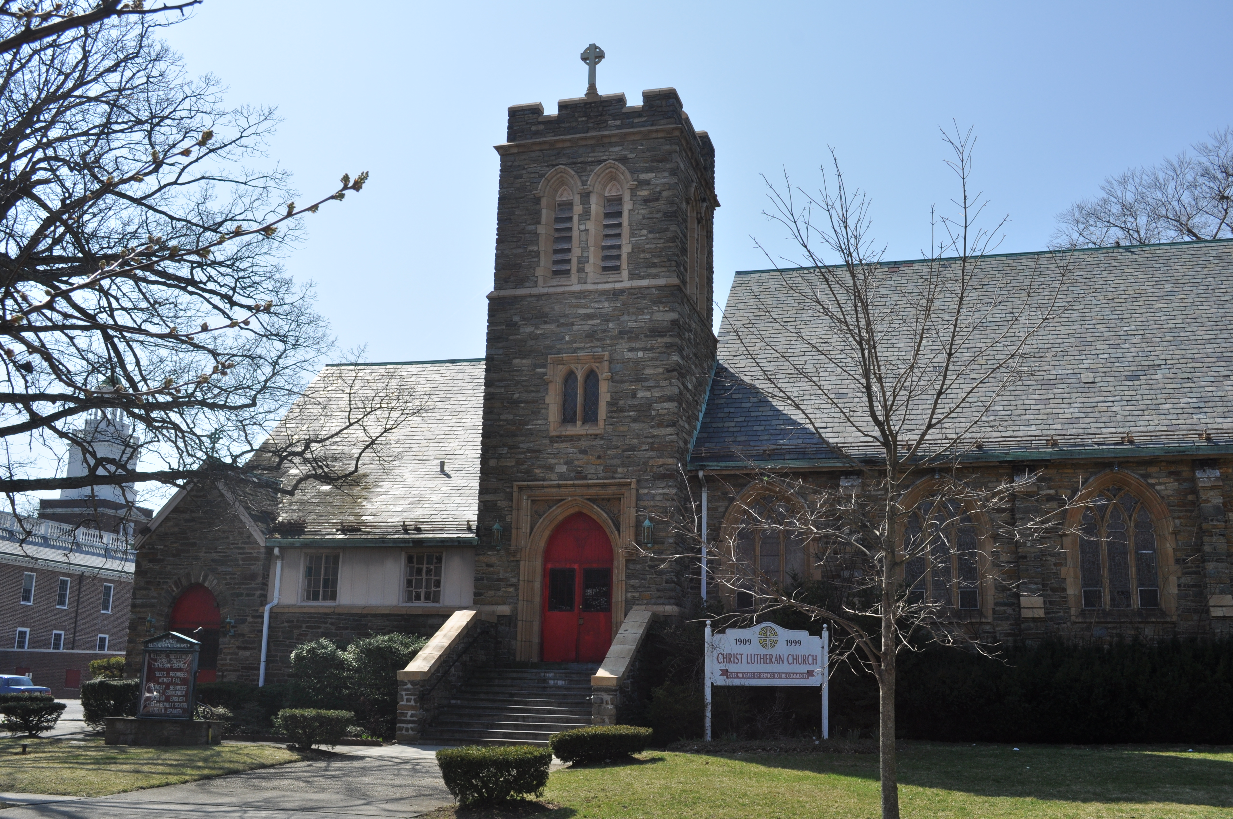 Christ Lutheran Church (next to the Municipal Building), Freeport, Long Island, New York.